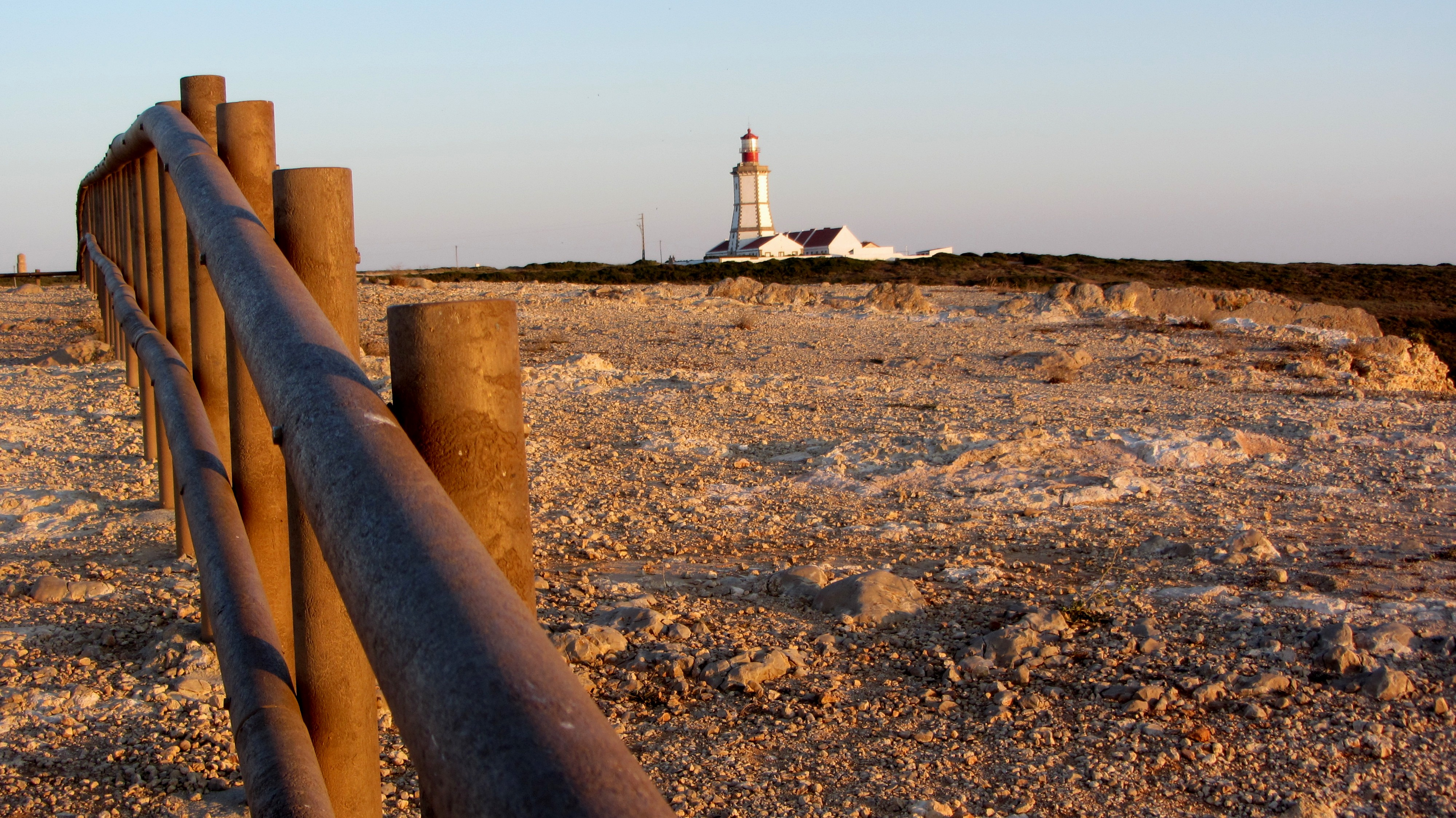 This is a photography of a Site of Community Importance in Portugal with the ID: PTCON0010. Natura2000 entry, EEA entry